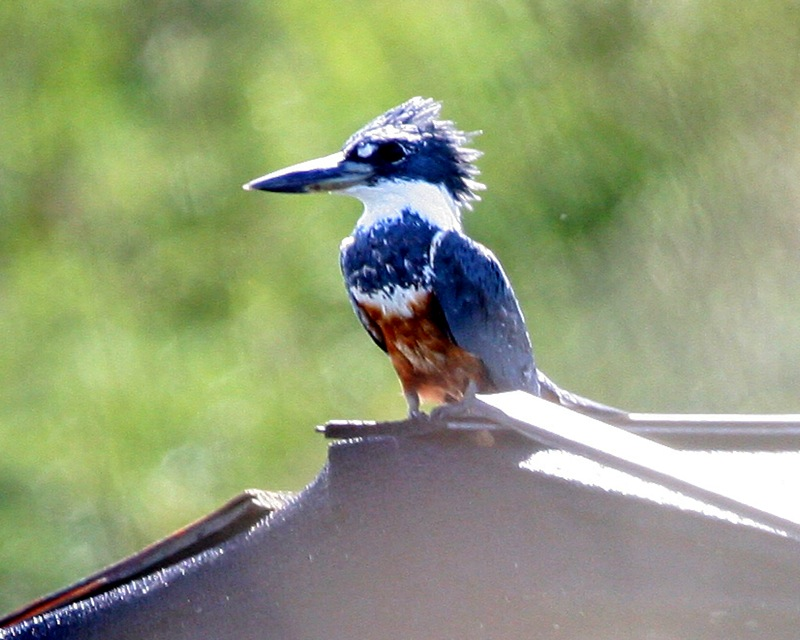 Ibera Marshes 2nd. April 2006